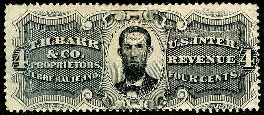 Image of T H Barr & Co proprietary stamp, 4c issued 1870